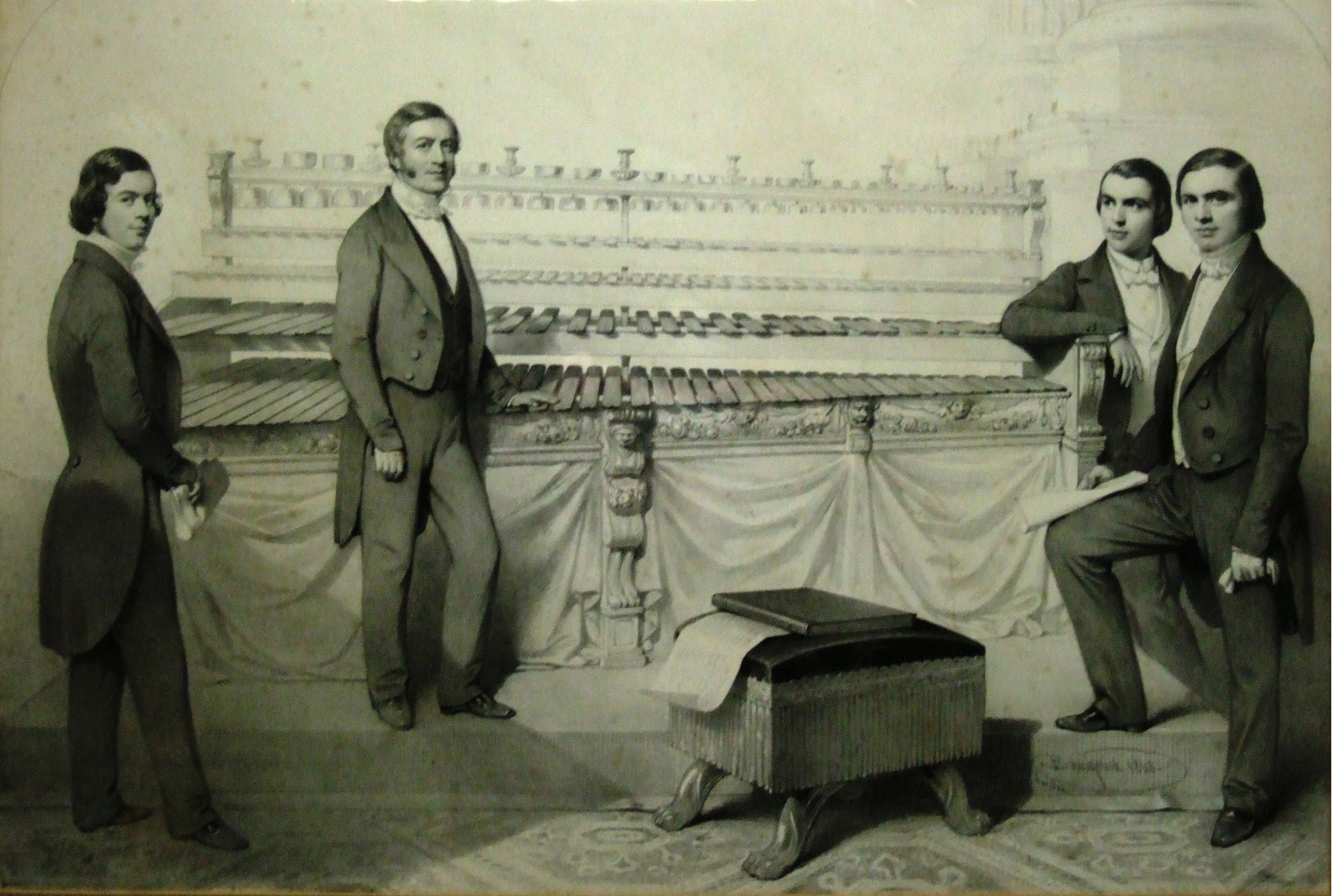 Joseph Richardson & Sons